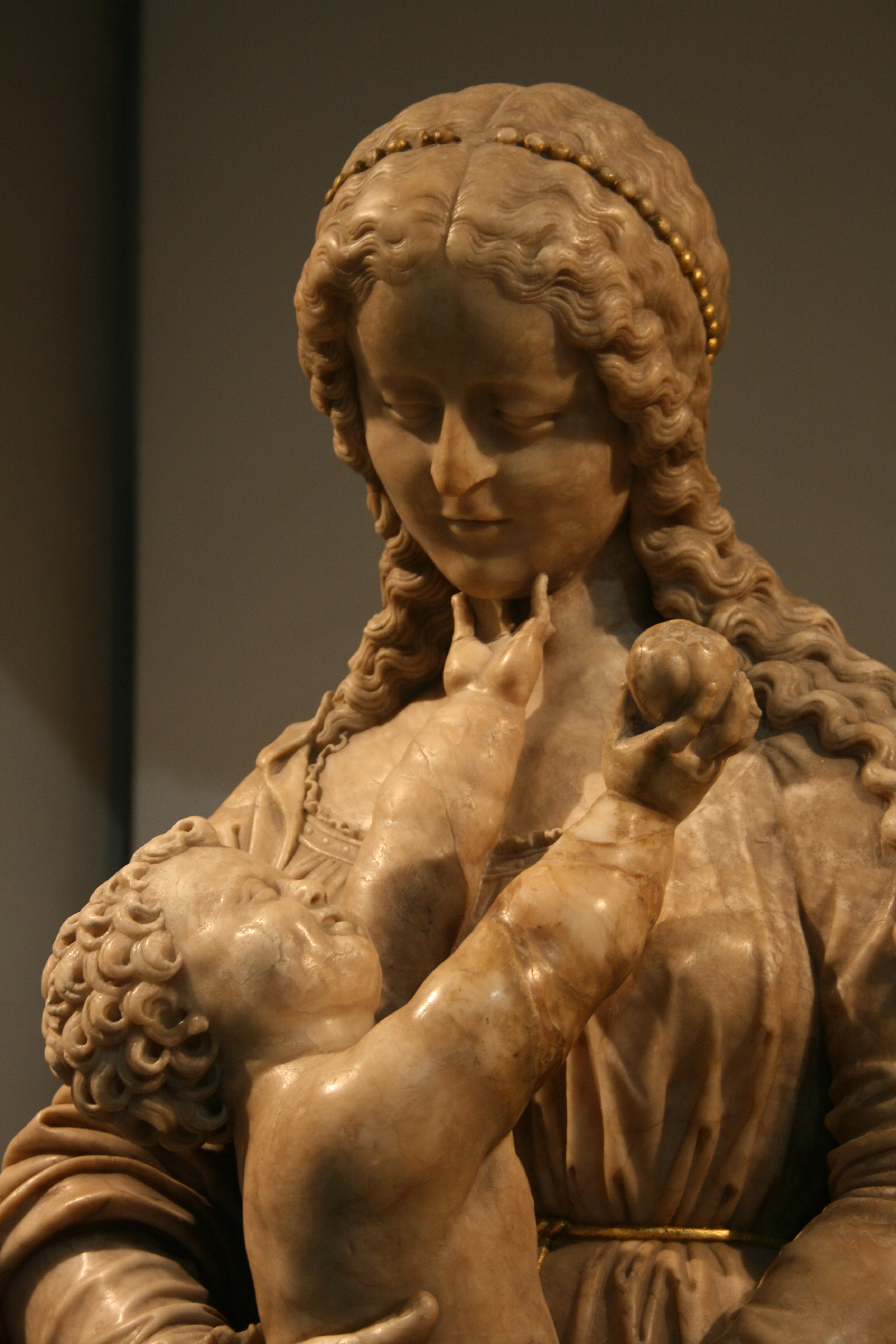 Vierge à l’enfant (seconde moitié du 16e siècle) par Conrad Meit.